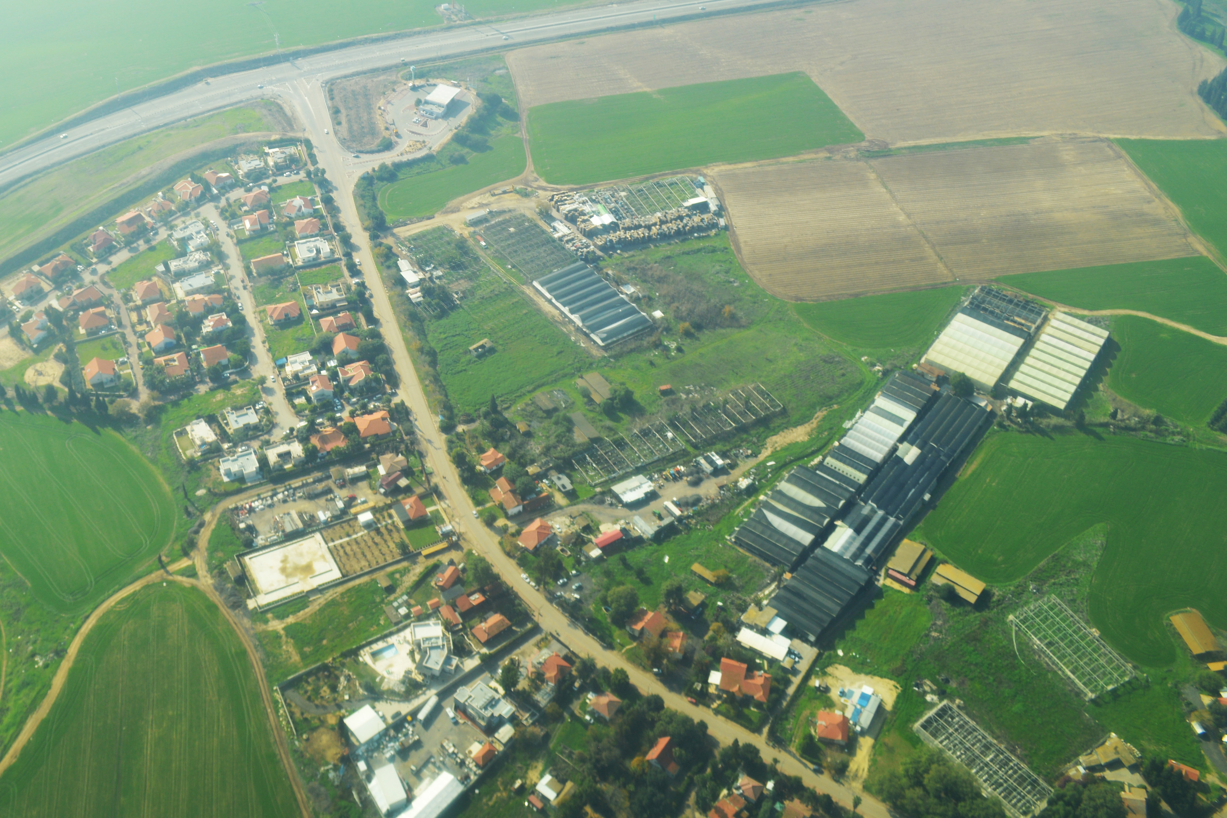 Yad Natan Aerial View